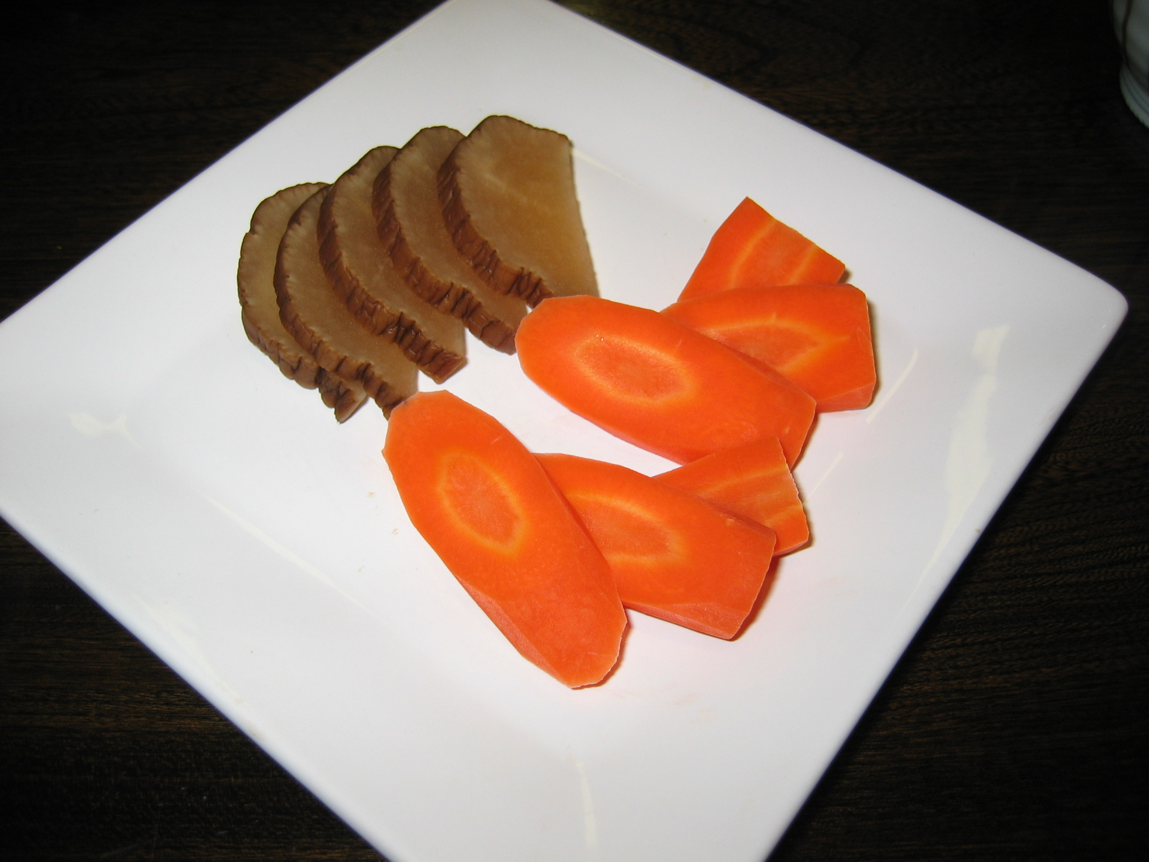 Iburigakko is smoked pickles of japanese radish.